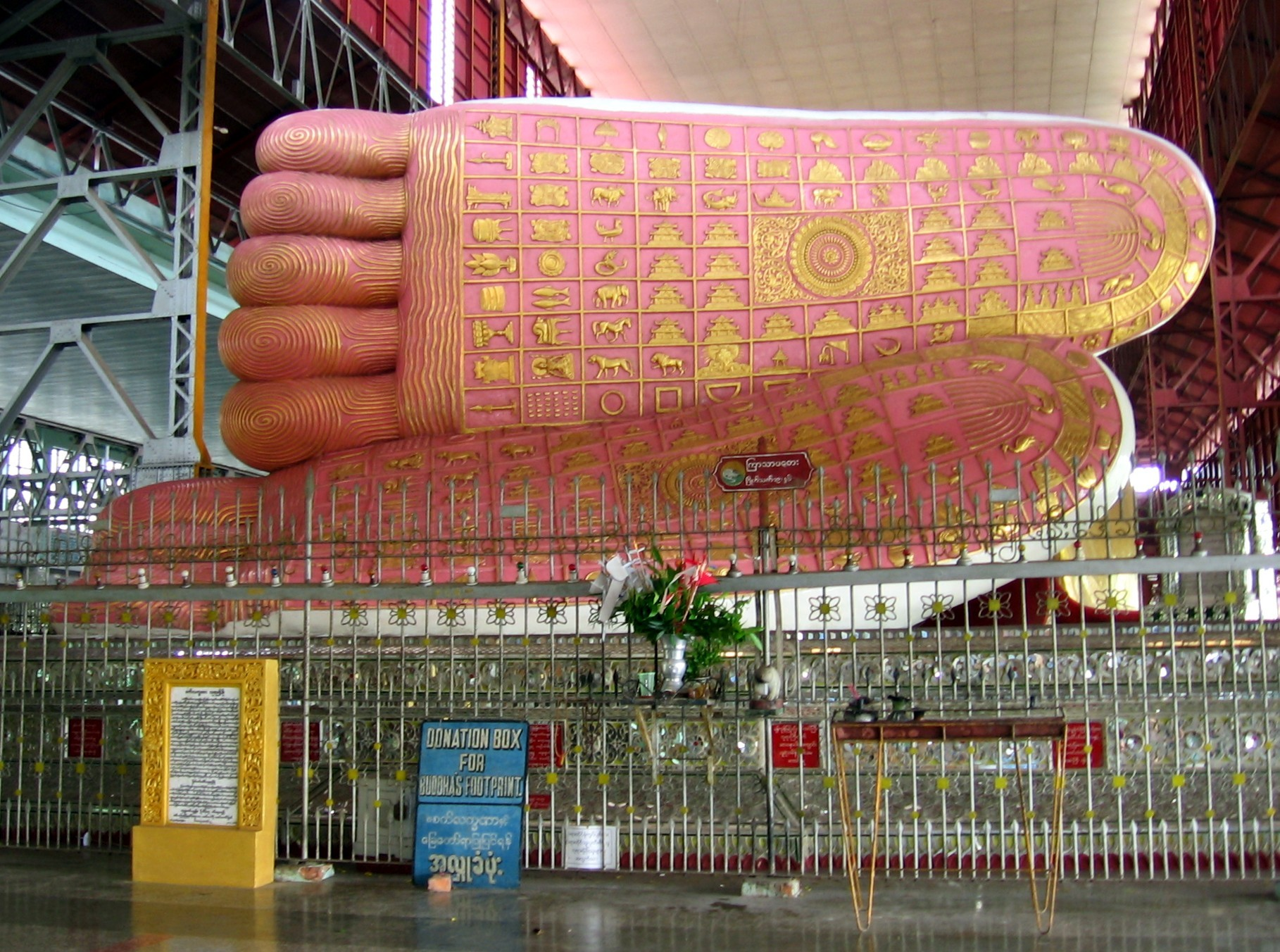 Chaukhtatgyi Paya is a pagoda located in Yangon, Myanmar. Inside there is a big reclined Buda.